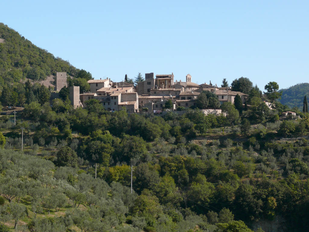 Collepino, view (comming from Spello)